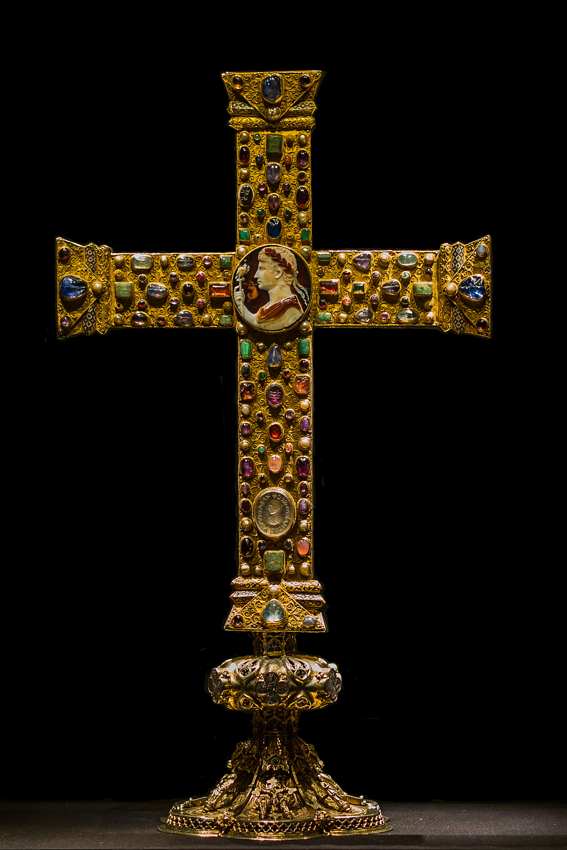 The Cross of Lothair is a jewelled processional cross, dating about 1000 AD. The cross is a famous part of the Aachen Cathedral Treasury at Aachen, Germany